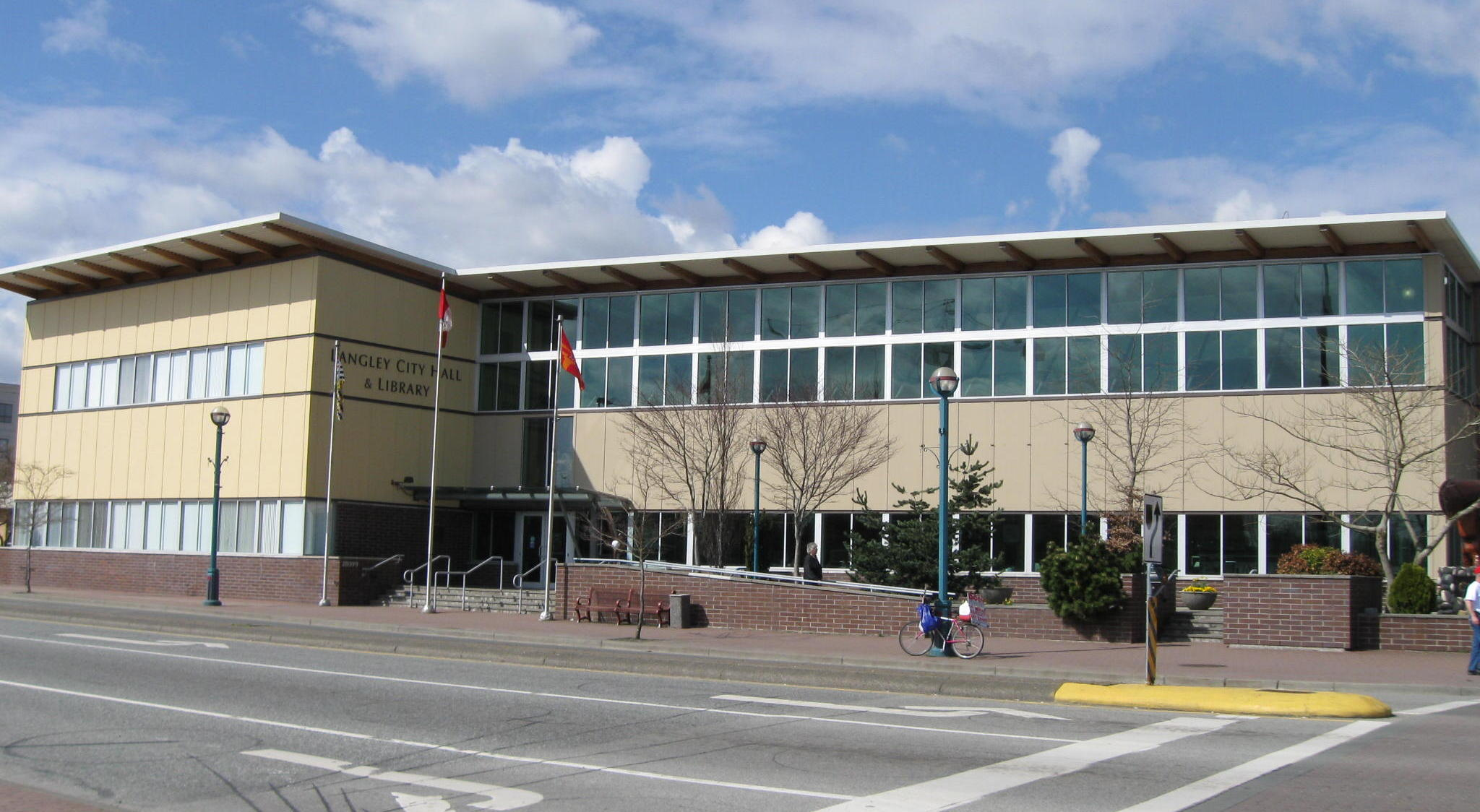 A north facing view of the Langley City Hall and Library building at 20399 Douglass Crescent in Langley, BC, Canada.